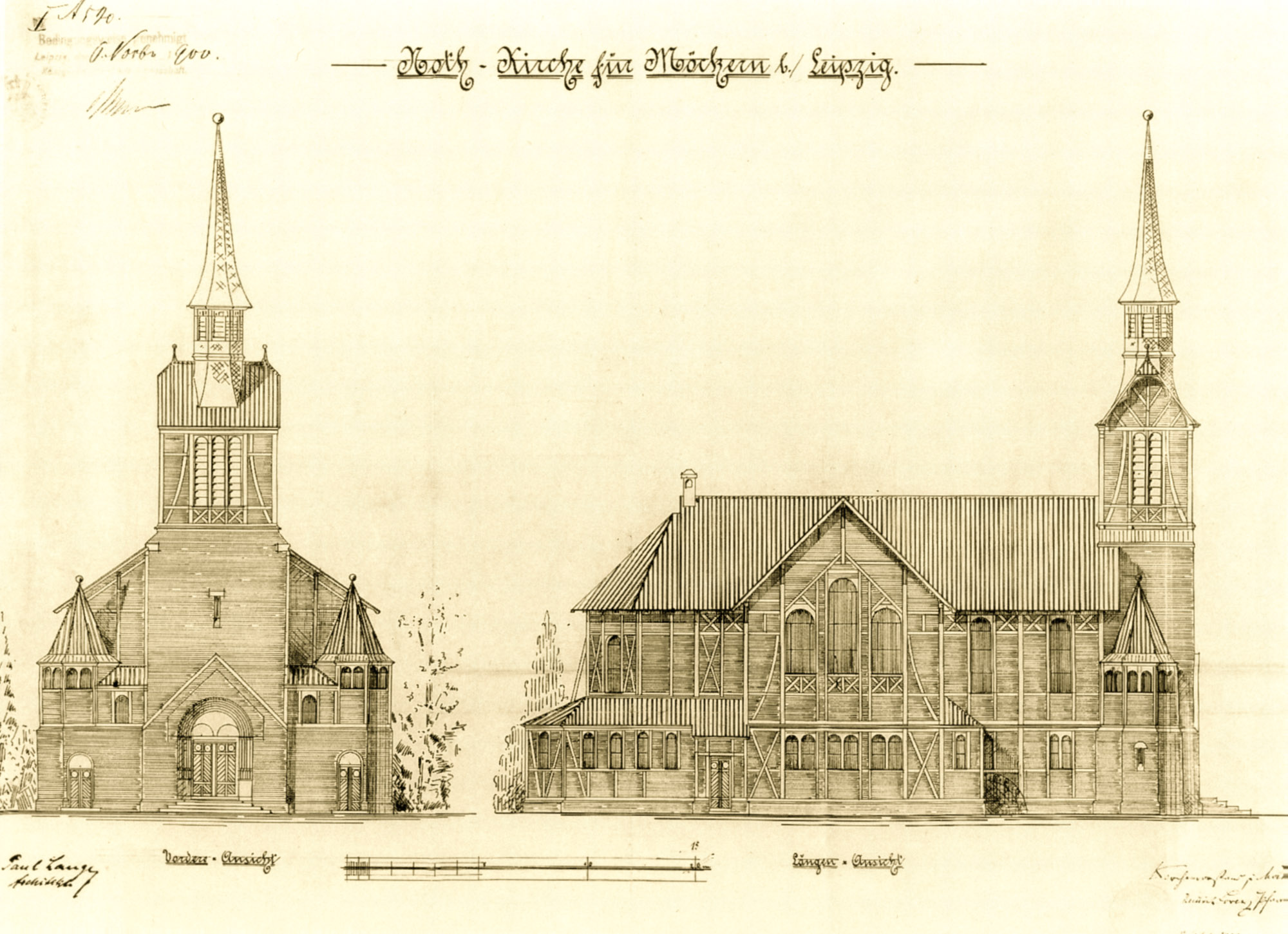 “Auferstehungskirche” (Resurrection Church) in Leipzig-Moeckern, view from the south and west, Operation Design by Paul Lange